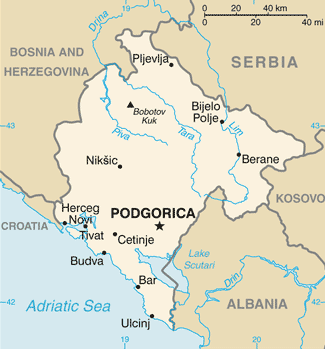 Map of Montengro